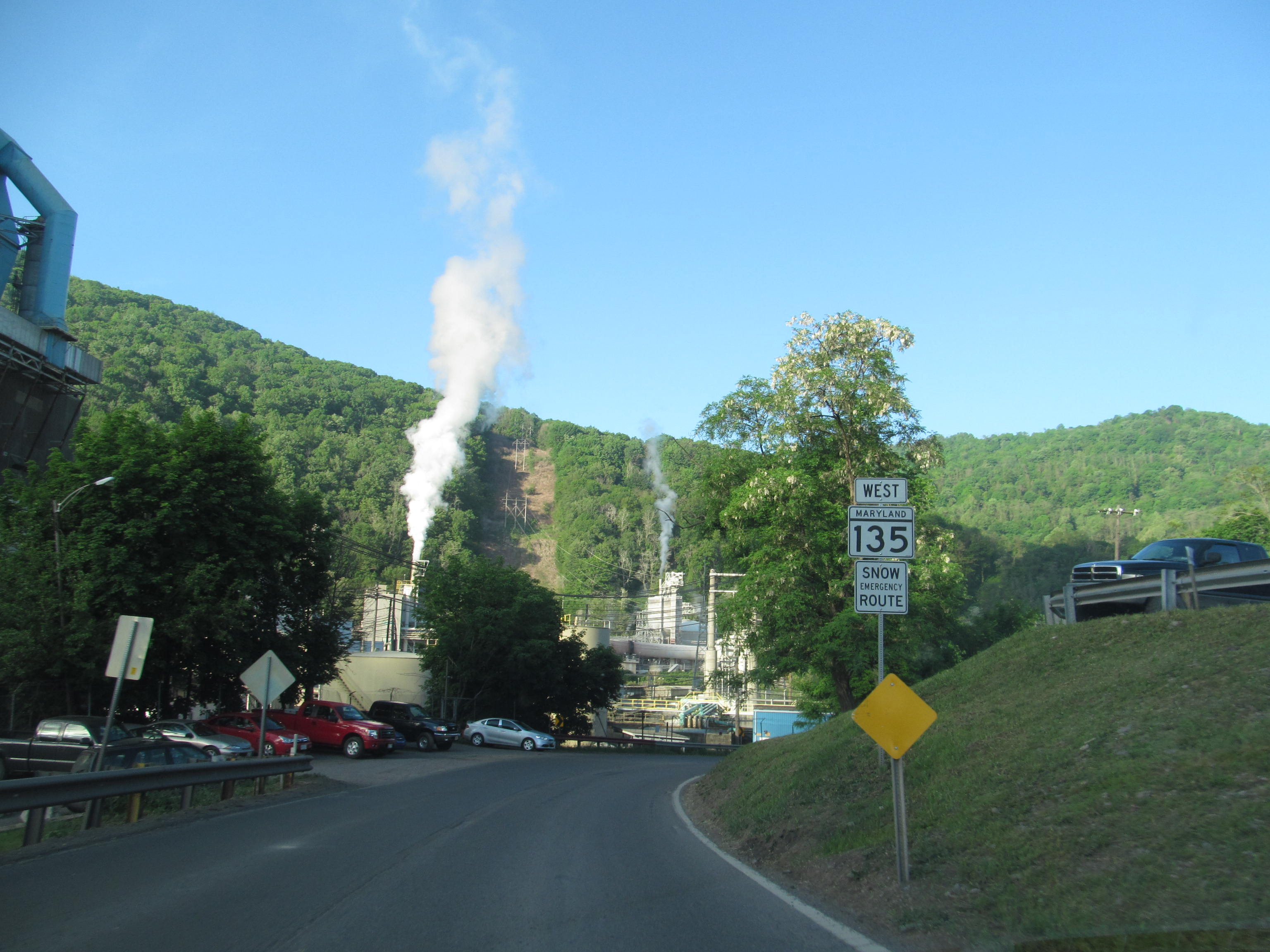 Westbound Maryland Route 135 (Pratt Street) in Luke.